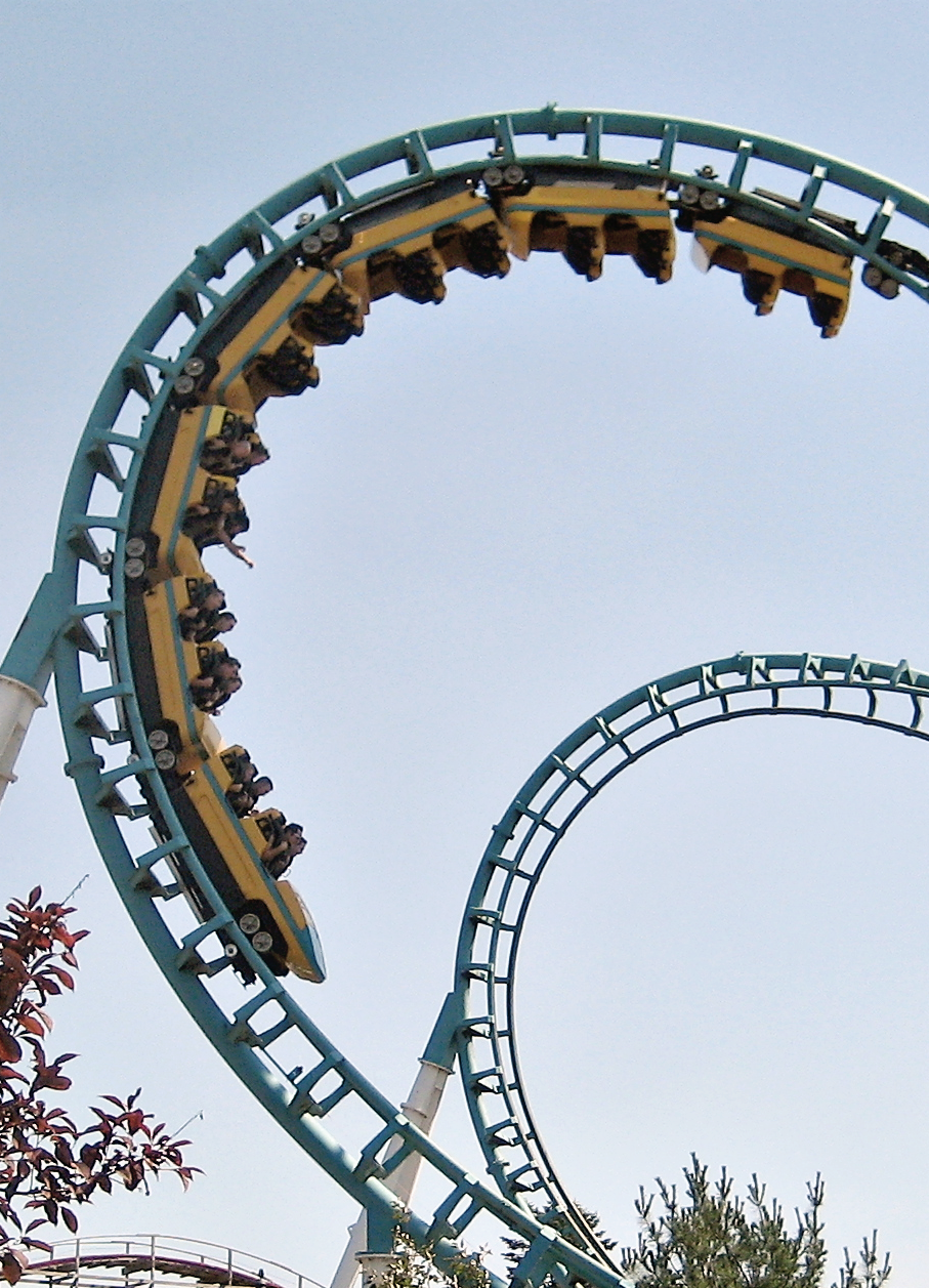 Picture of Head Spin at Geauga Lake amusement park.